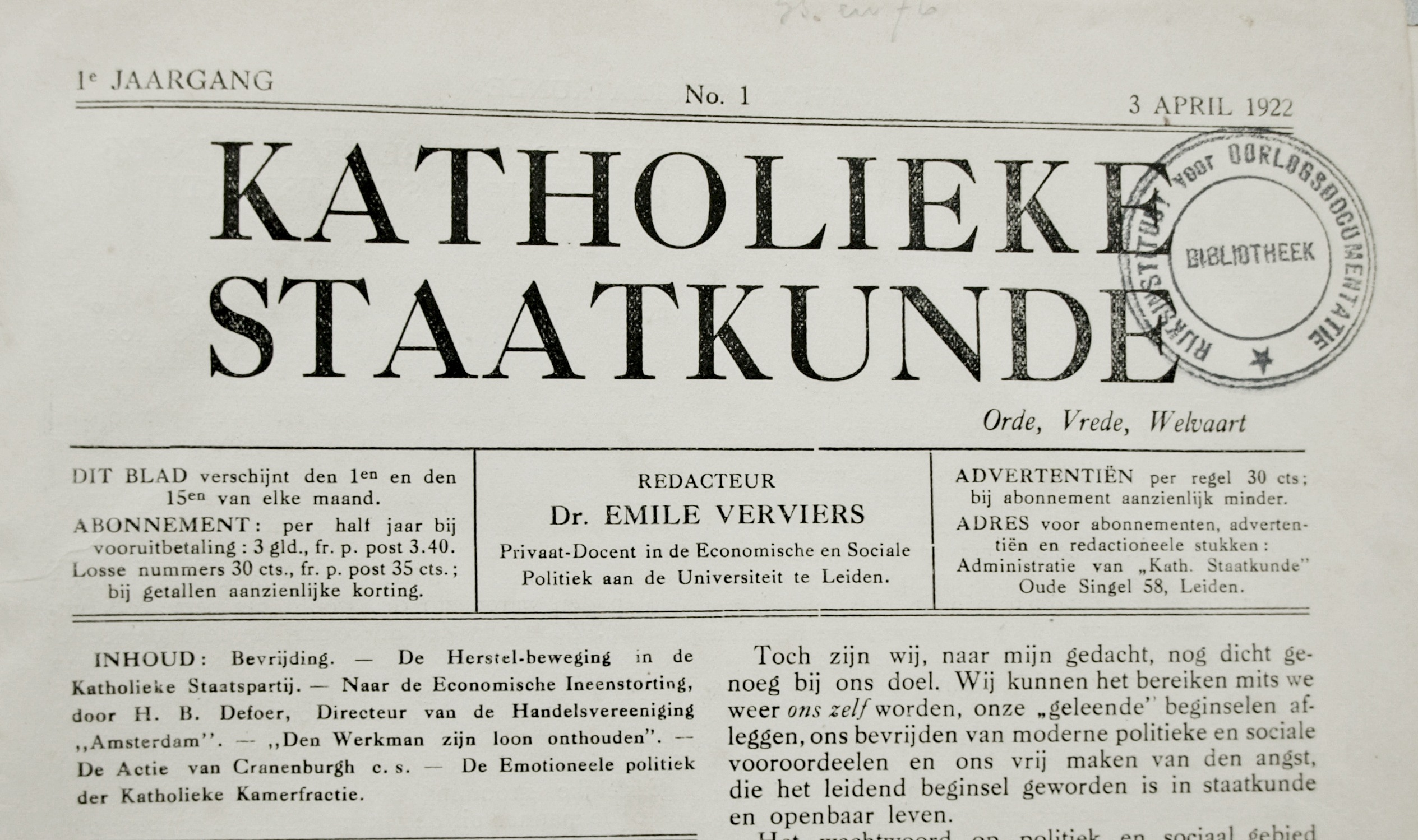 header of Katholieke Staatkunde, Dutch magazine – nr. 1, 3 april 1922